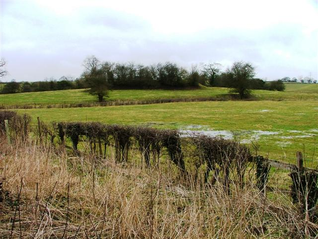 Sigston Castle. The remains of a 14c castle.